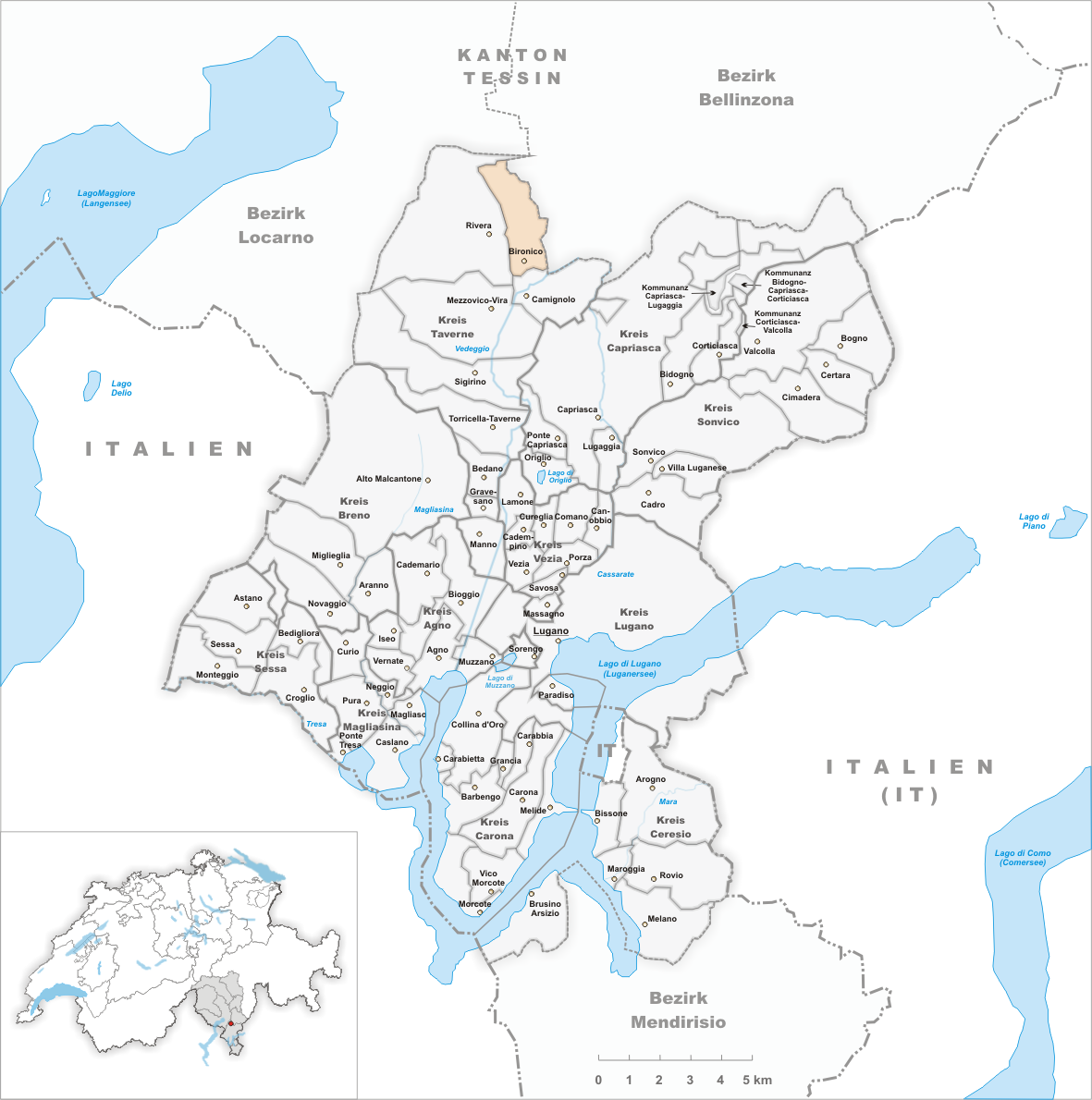 Municipality Bironico